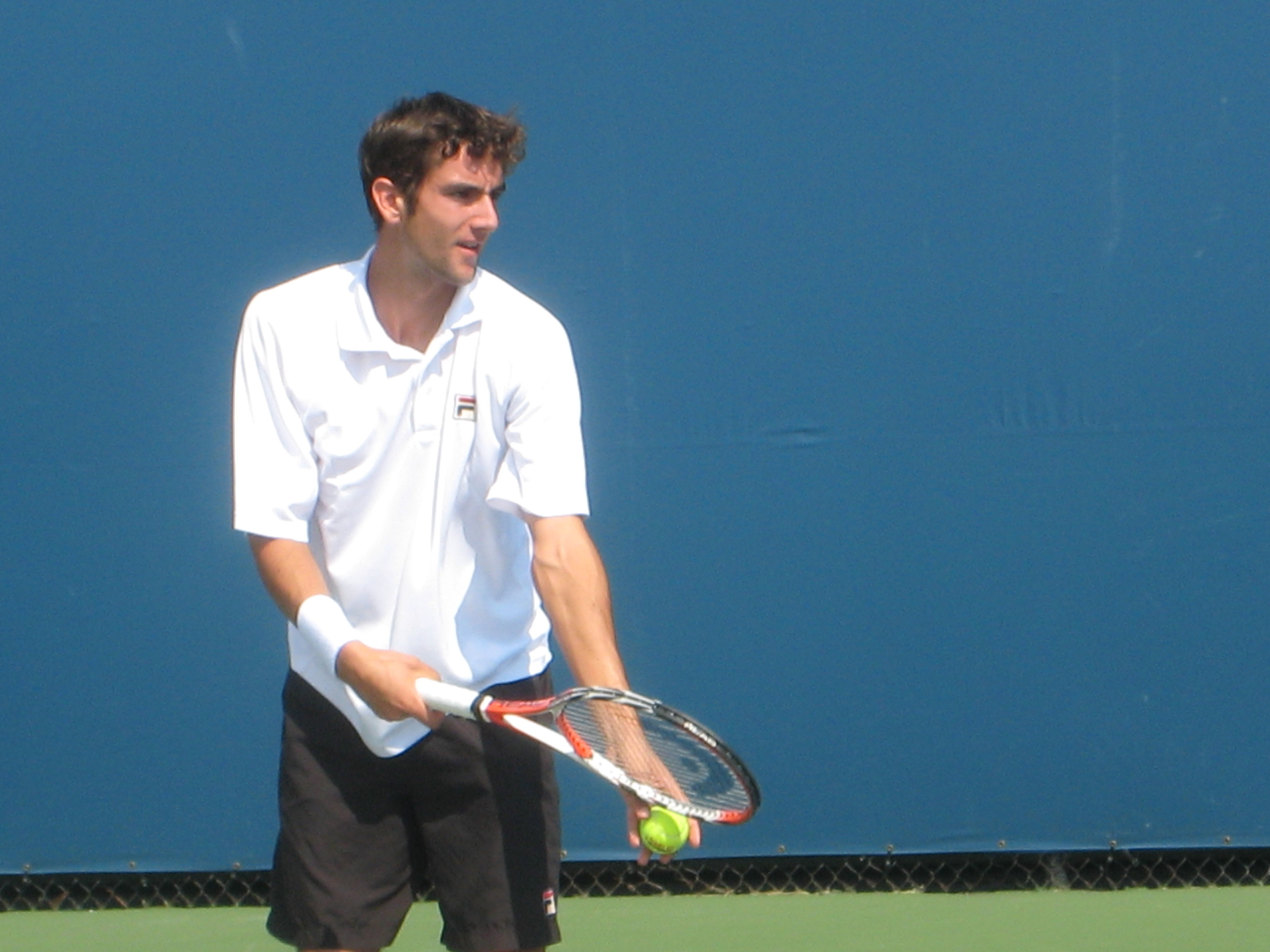 Marin Cilic at the 2008 Pilot Pen Tennis tournament, playing against Viktor Troicki.